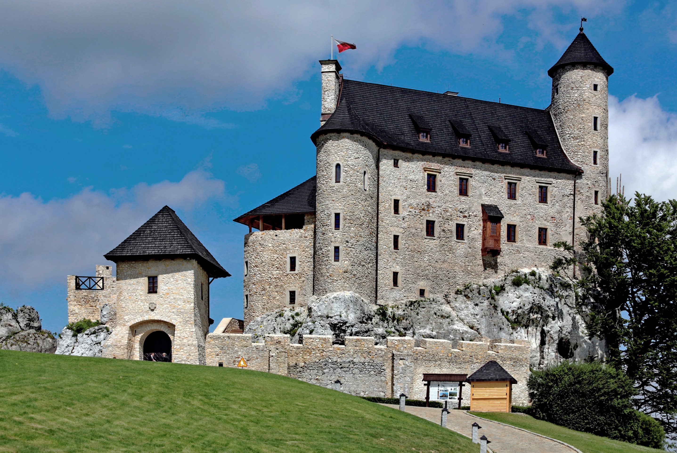 Castle Bobolice